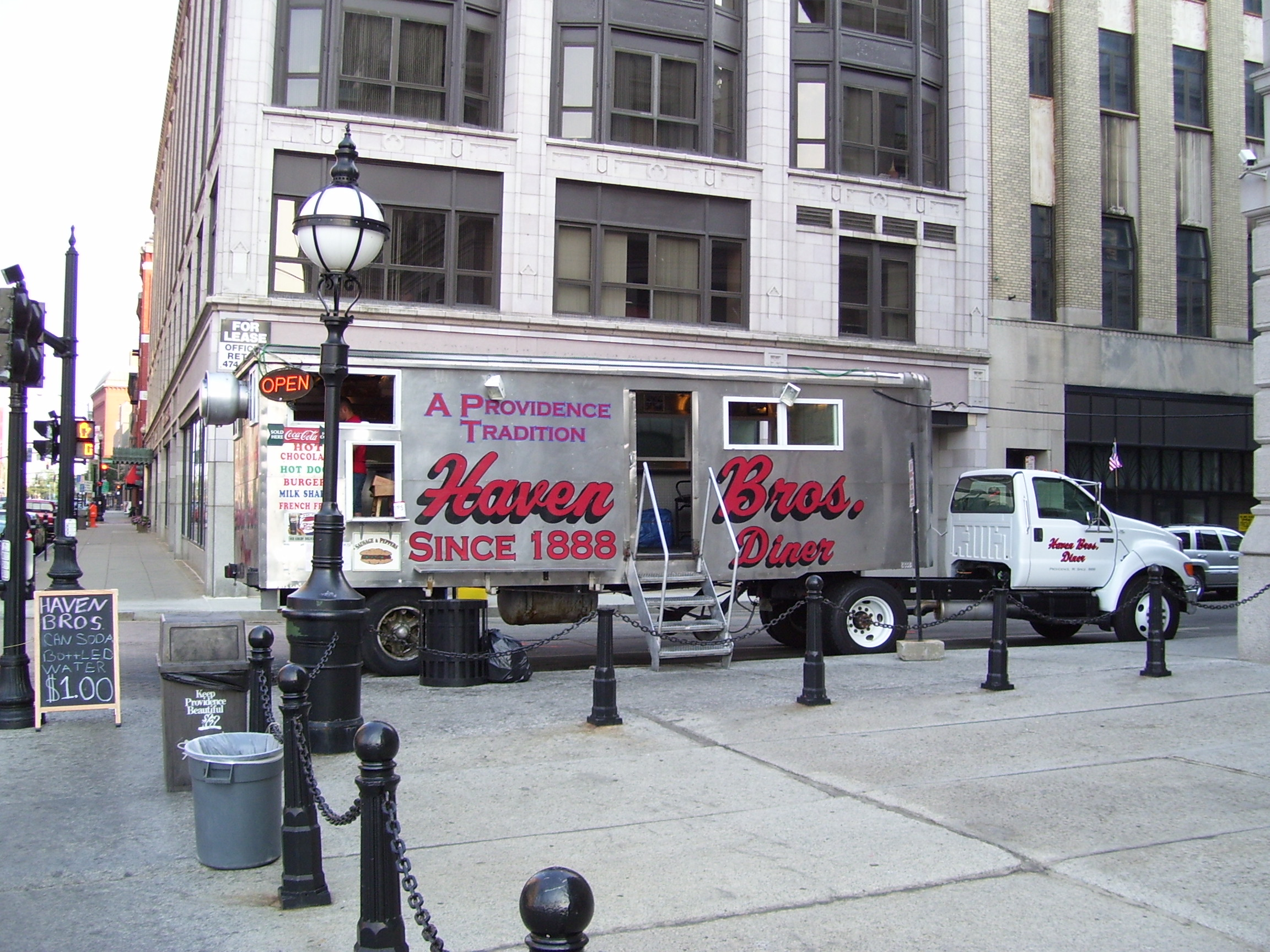 This is my 2008 photo of Haven Brothers in Providence, RI.